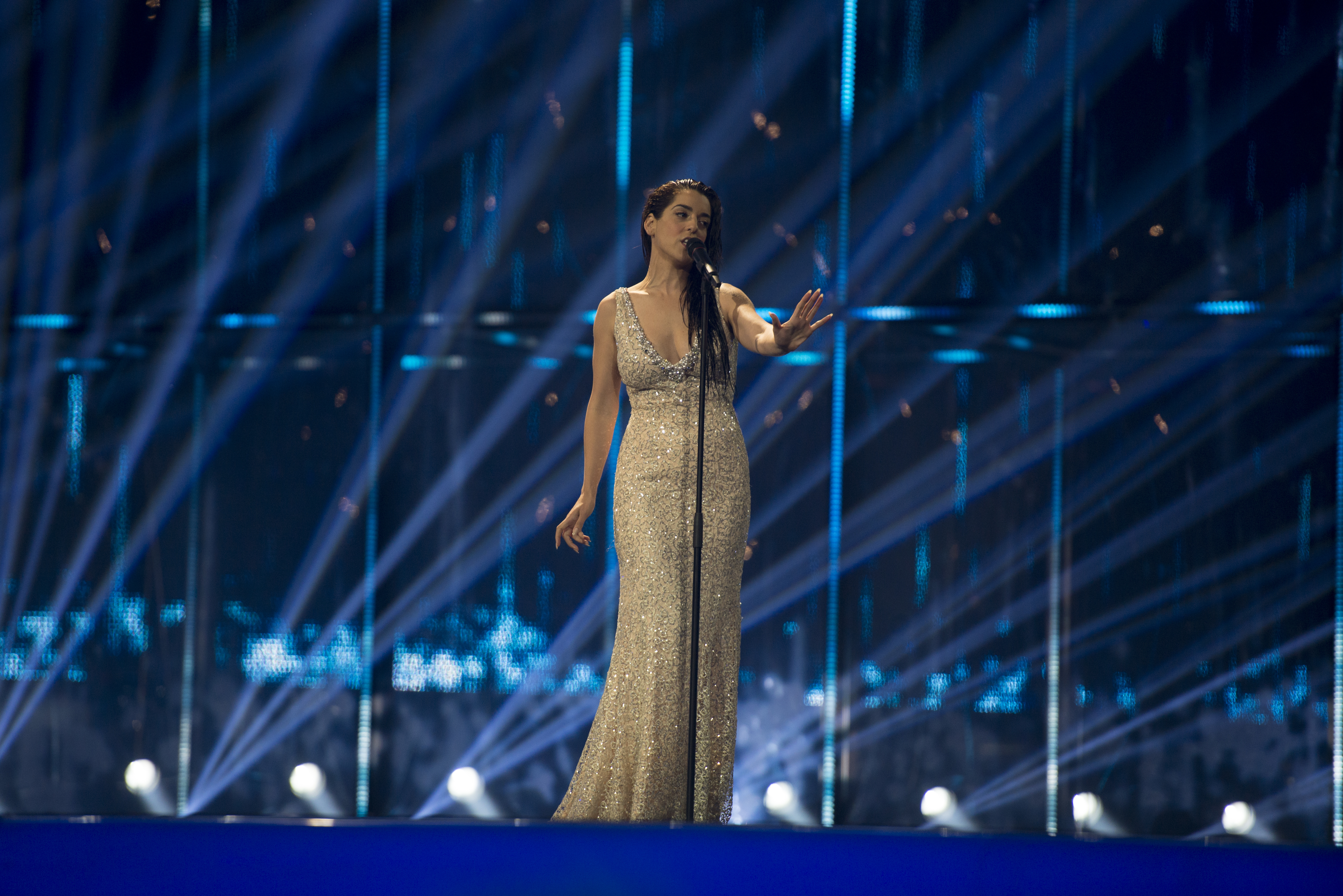 Ruth Lorenzo representing Spain with the song "Dancing in the Rain" during the first dress rehearsal of the final of the Eurovision Song Contest 2014 Copenhagen. (Help translate this text)